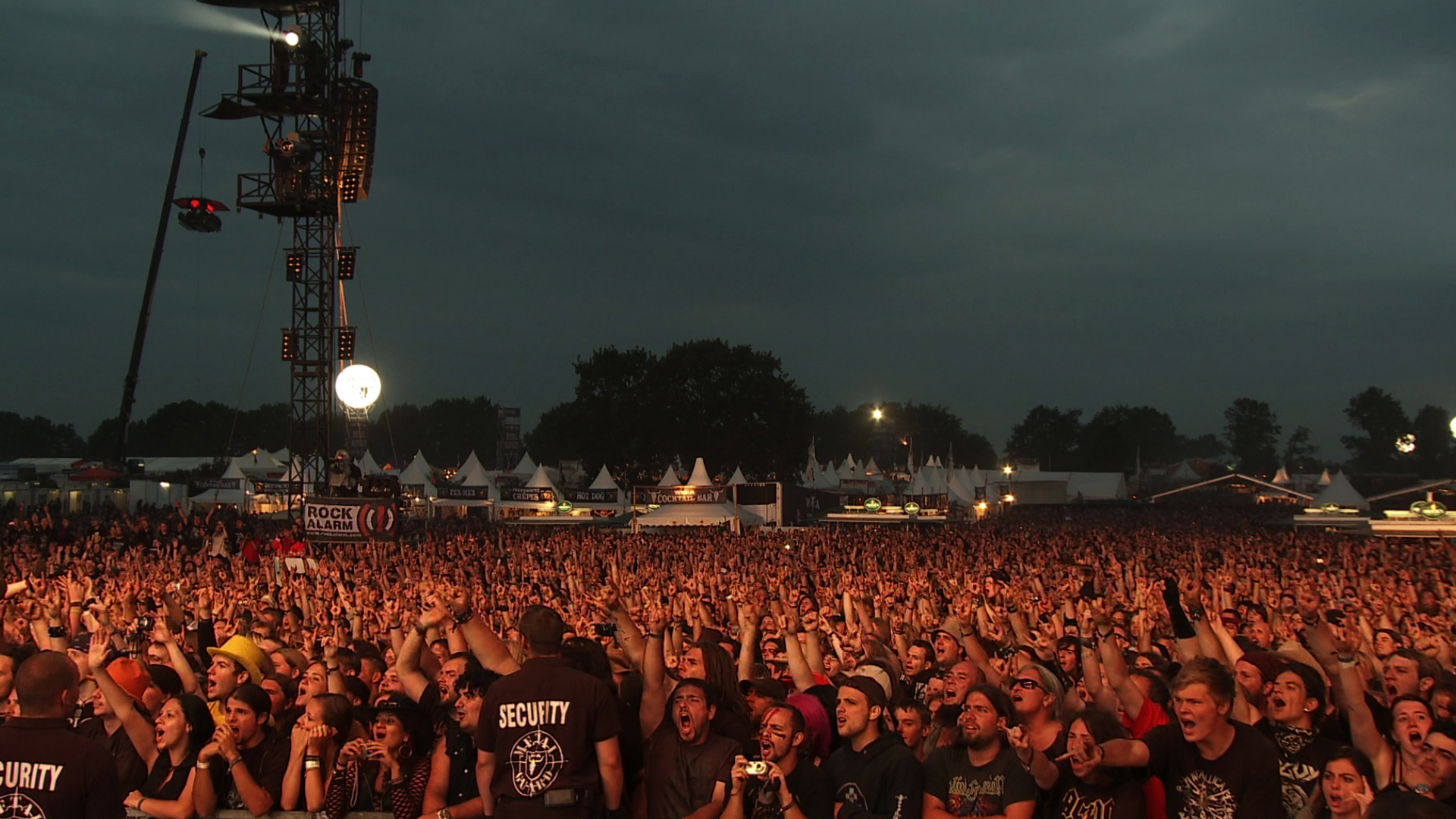 Road to Wacken